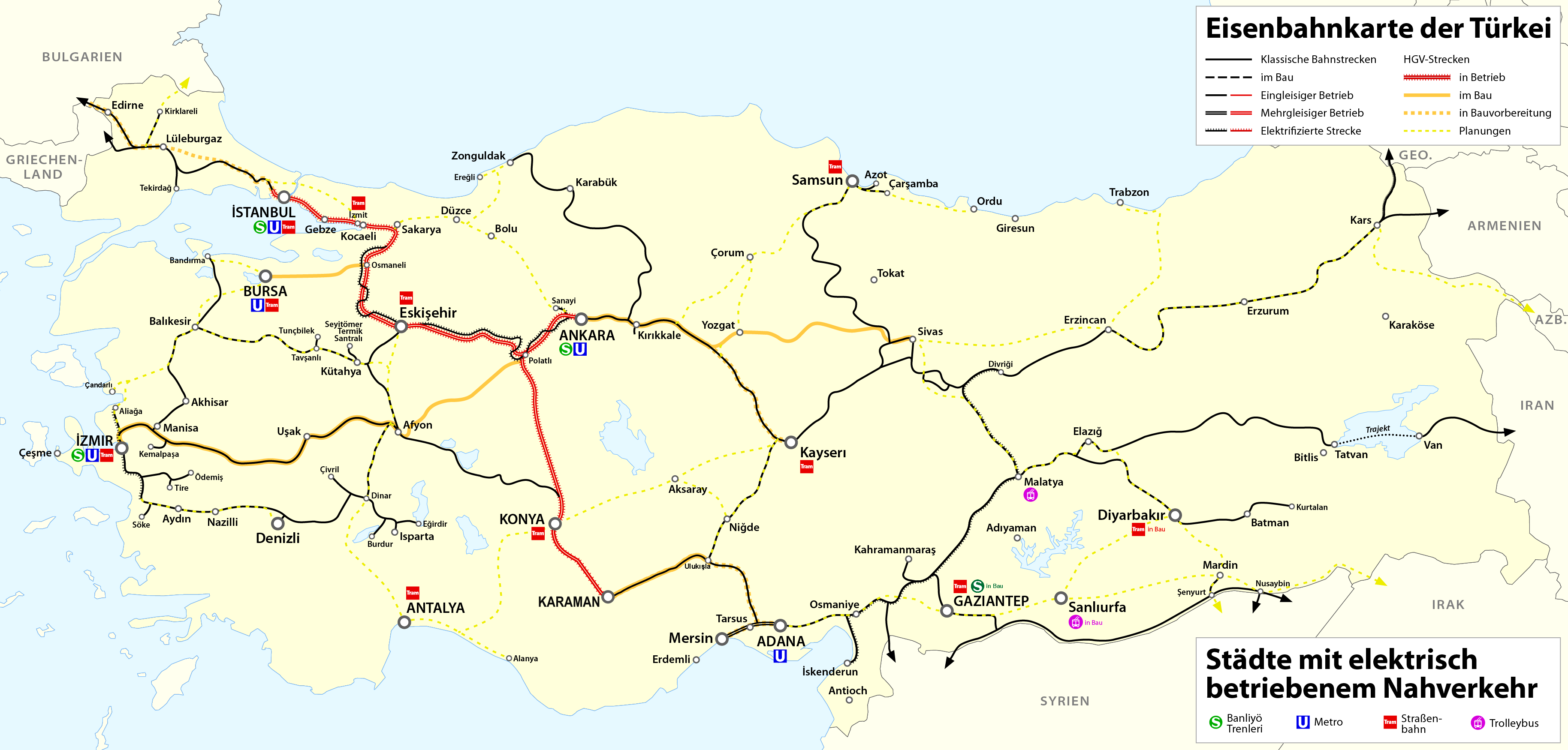 Railway map of Turkey